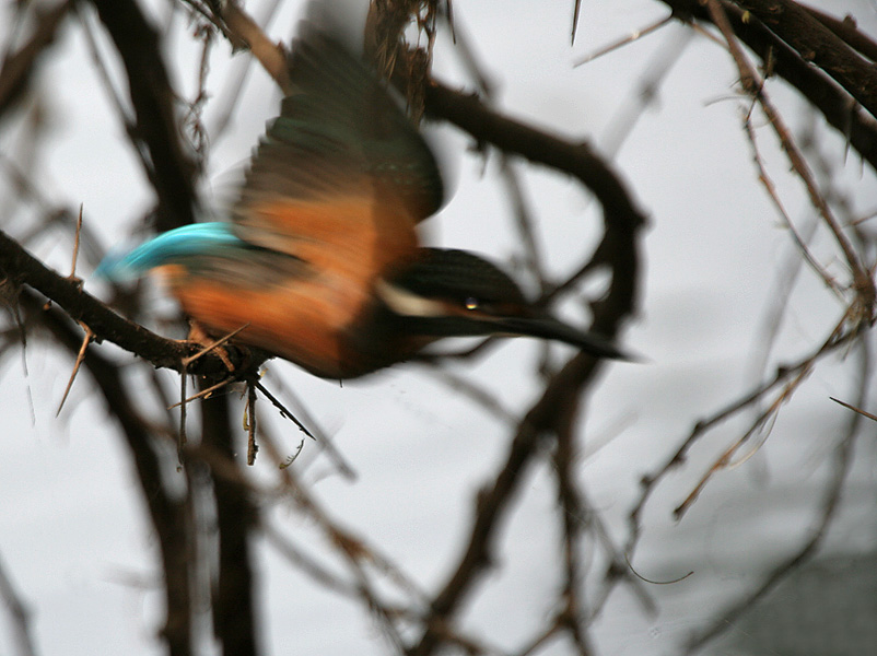 Common Kingfisher, Eurasian Kingfisher or River Kingfisher Alcedo atthis at Lotus Pond, Hyderabad, India.